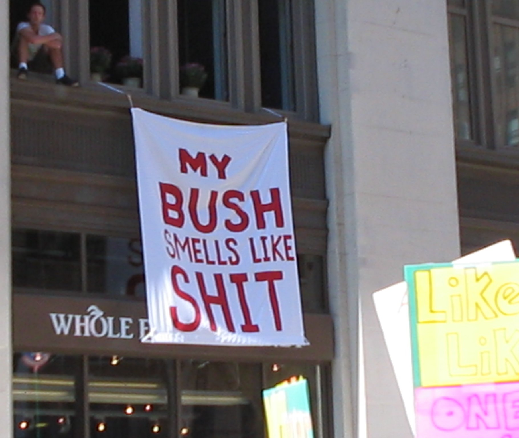 Many local New Yorkers, such as these city-dwellers dropping banners from their apartment, expressed their support for the August 29, 2004 RNC protests. I took this picture and release it into the public domain.